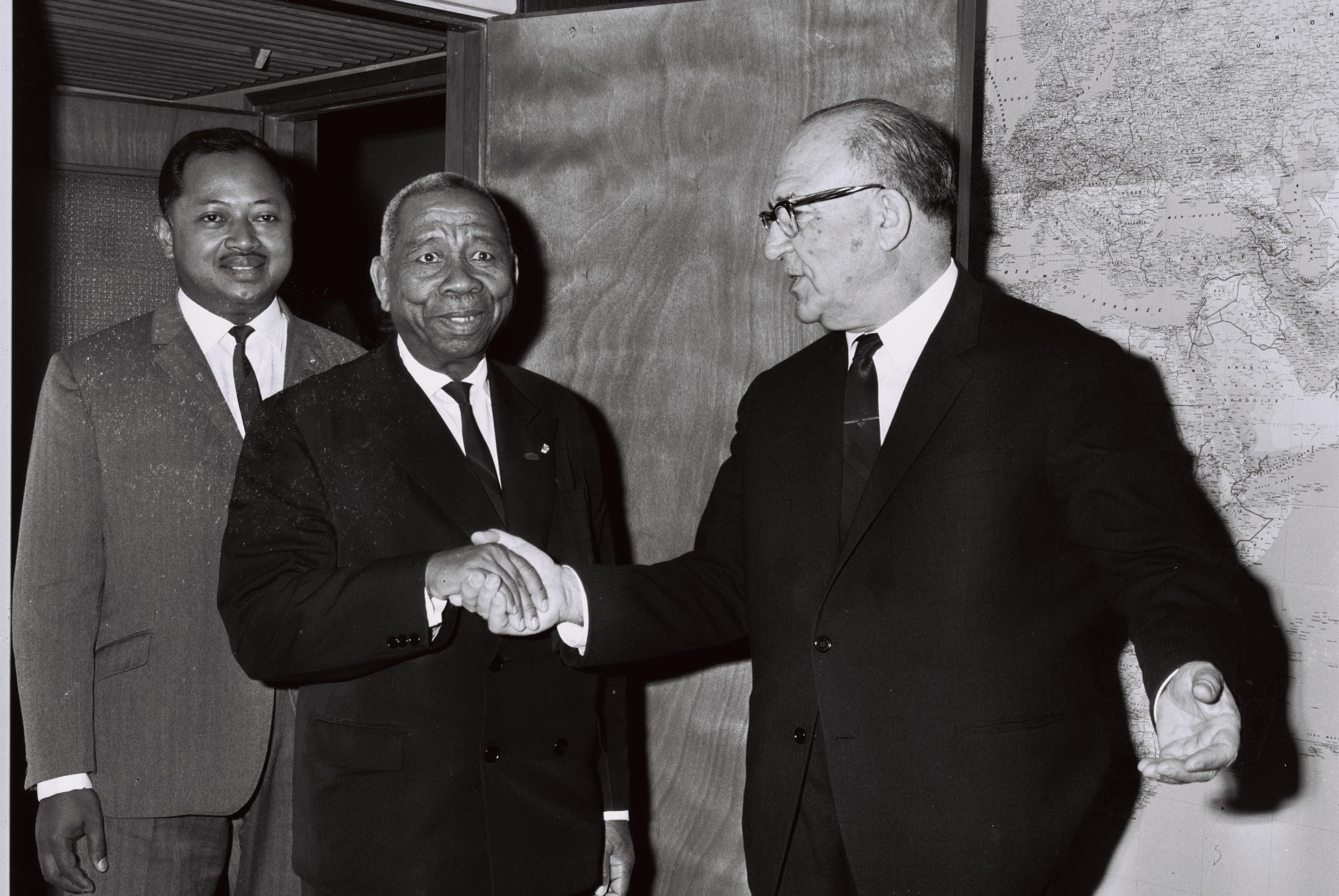 Vice President of the Malagasy Republic Calvin Tsiebo and the Malagasy Ambassador in Israel Jules Razafinbahiny at a meeting with Israeli Prime Minister Levi Eshkol in Jerusalem, May 10, '67.